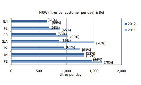 Liters per customer per day in % - 'PR' refers to Prishtina